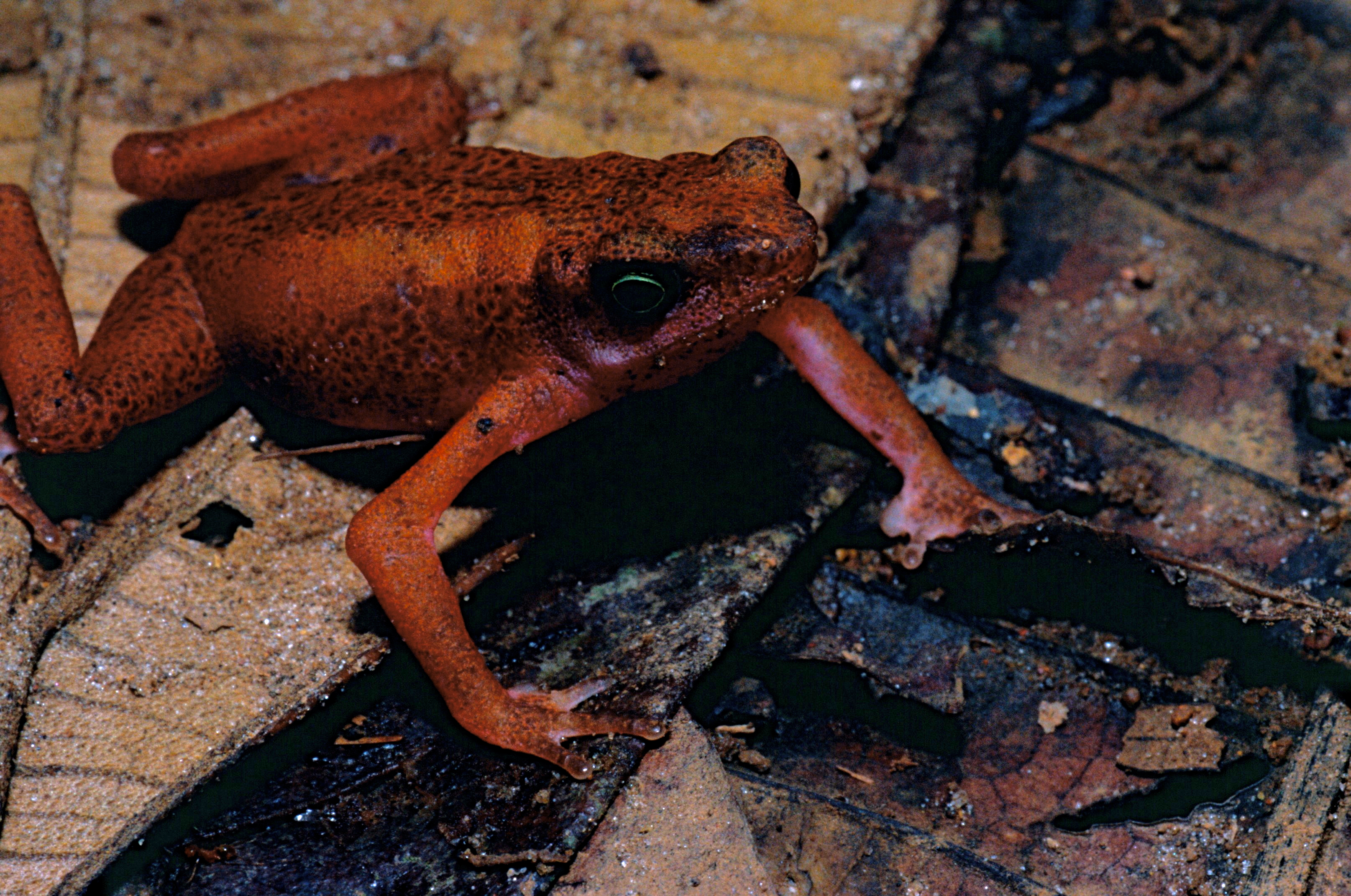 Réserve du Mont Grand Matoury, Guyane, FRANCE Scanned Slide from 2001